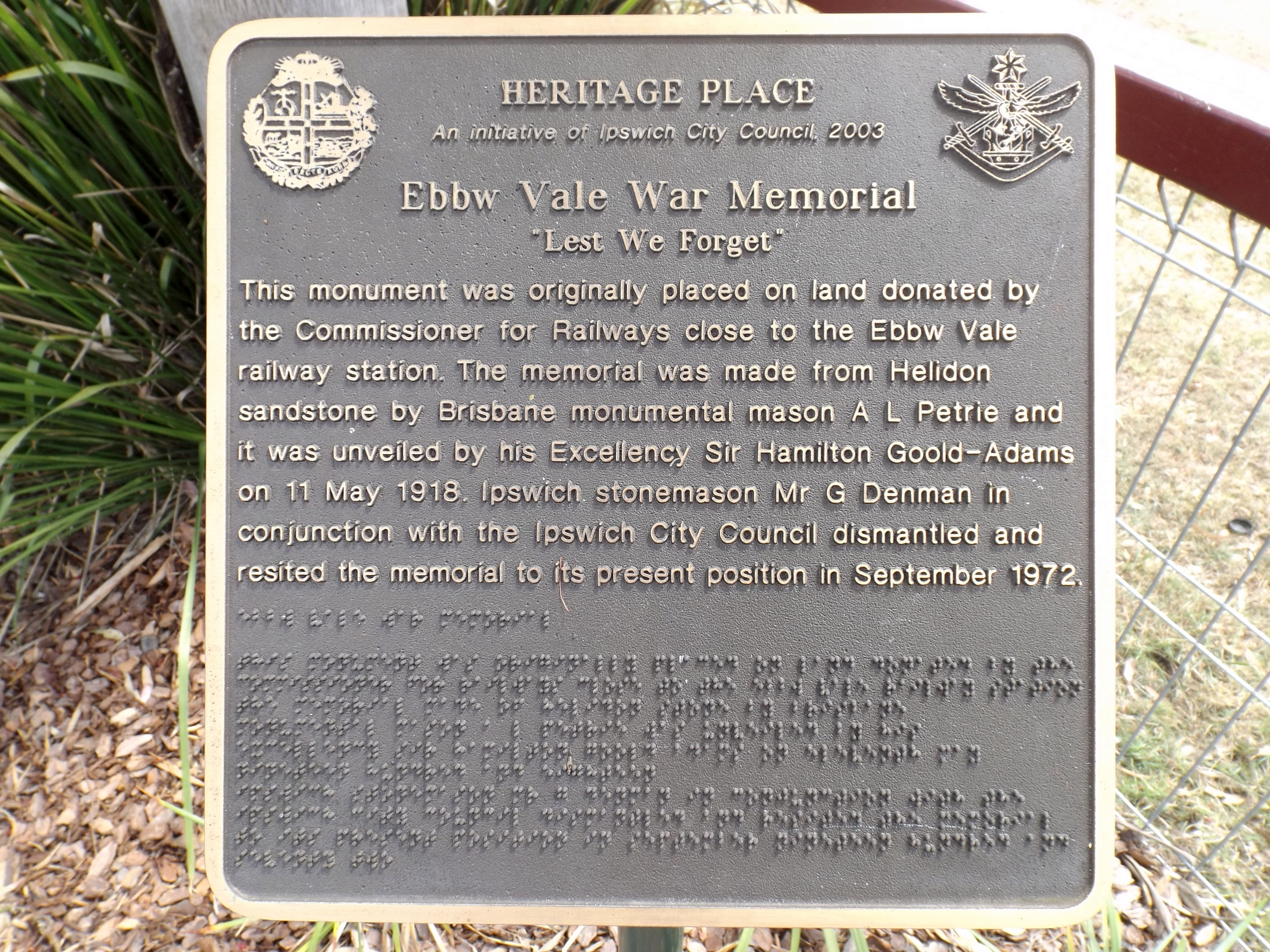 Photo of an Ipswich City Council plaque at Ebbw Vale Memorial Park in Ebbw Vale, Ipswich, Queensland, Australia.